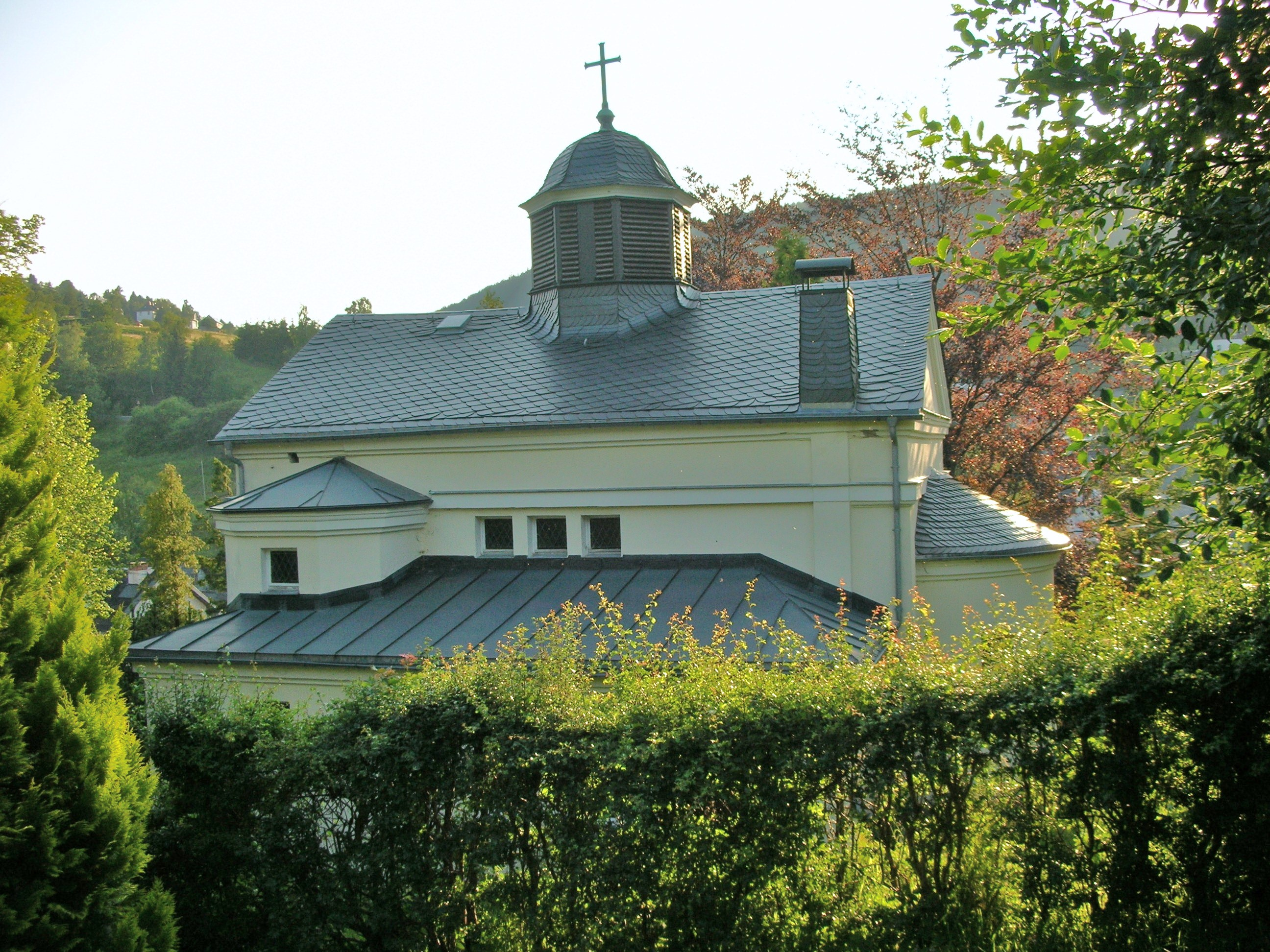 Oberland am Rennsteig, chapel in Haselbach, near the cemetery